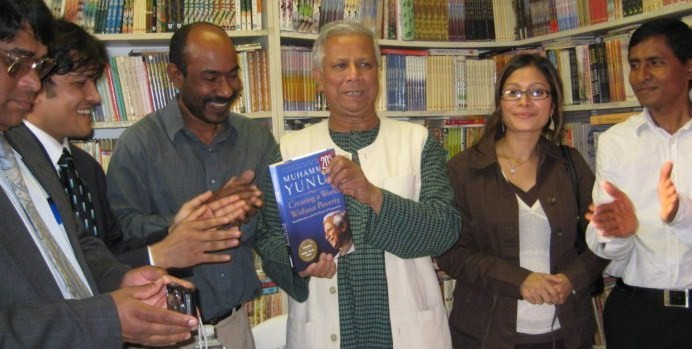 Nobel Laureate Muhammad Yunus is the pioneer of micro-credit, and founder Grameen—which is design to reduce poverty, improve education, house the homeless, abolish terrorism, heal the sick, protect the planet—and empower women. Dr. Yunus revealed his new book, “Creating a World Without Poverty” at Muktadhara on April 25, 2008. Jerald Posman, Consul Samsul Haque, RaSHIDUL Bari, Dr. Ali, Abu Taher and Biswajit Saha are seen on the picture.